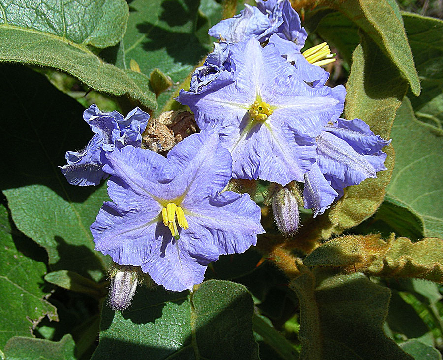 Flowers of the Devil's Fig. A synonym of S. hispidum. In context at